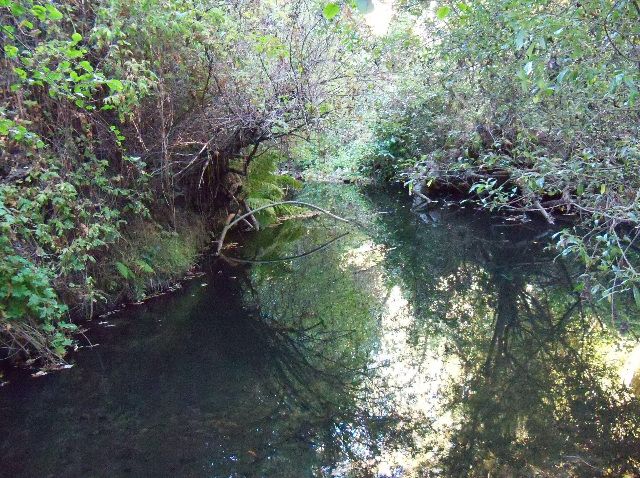 Public domain, I am the author (John Pilge). View of Carbonera Creek where it meets Brancefore Creek near 500 Market Street in Santa Cruz.